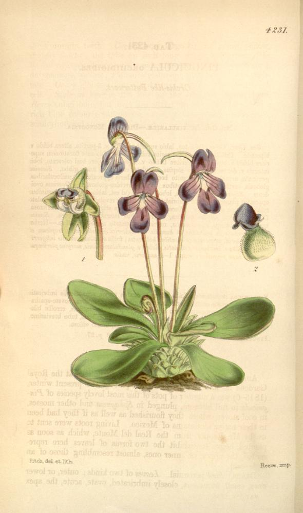 Illustration of Pinguicula moranensis, titled "Pinguicola orchidioides".